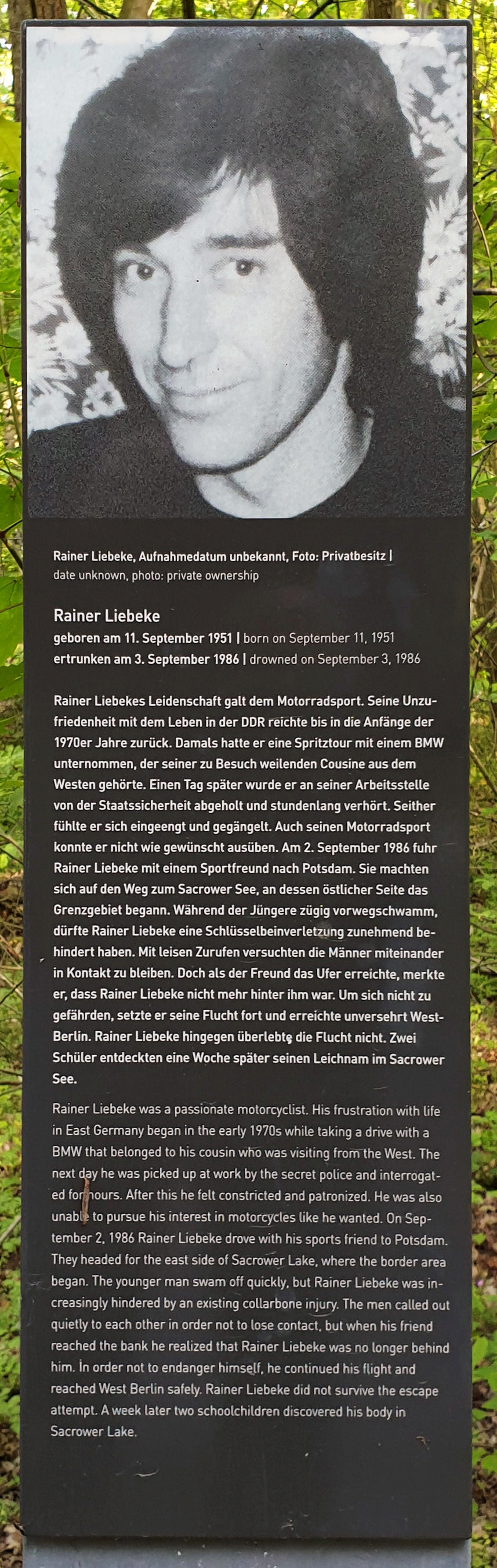 Memorial plaque, Rainer Liebeke, Kladower Straße, Potsdam, Deutschland